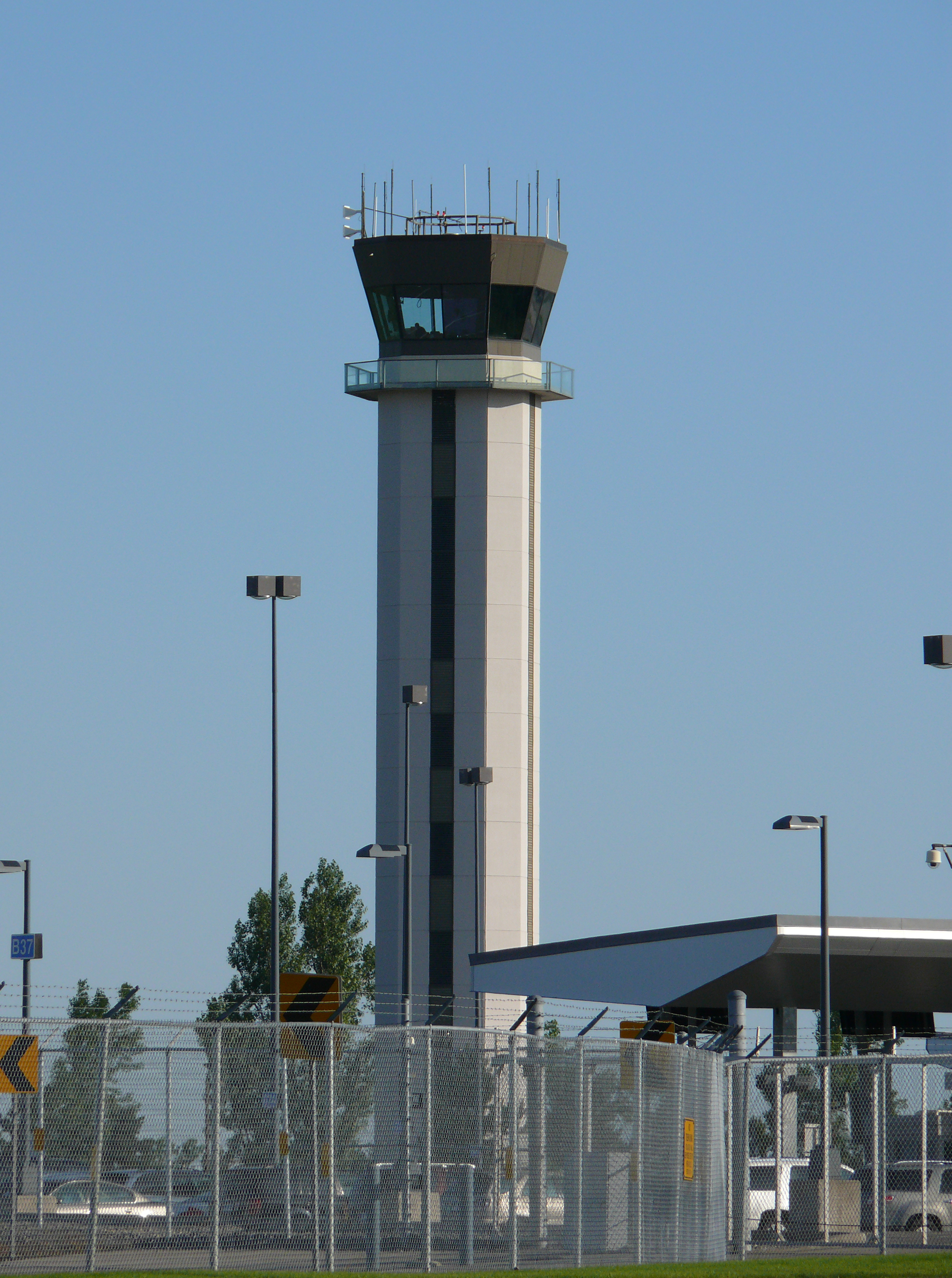 Control tower at Buffalo Niagara International Airport (IATA: BUF). It is an airport located in Cheektowaga in Erie County, New York. The airport serves Buffalo, New York as well as Southwest Ontario Canada. It is the busiest airport in Upstate New York, and the third busiest in New York State by number of boardings.